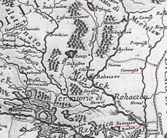 Map Czaczersk starostvo 1688